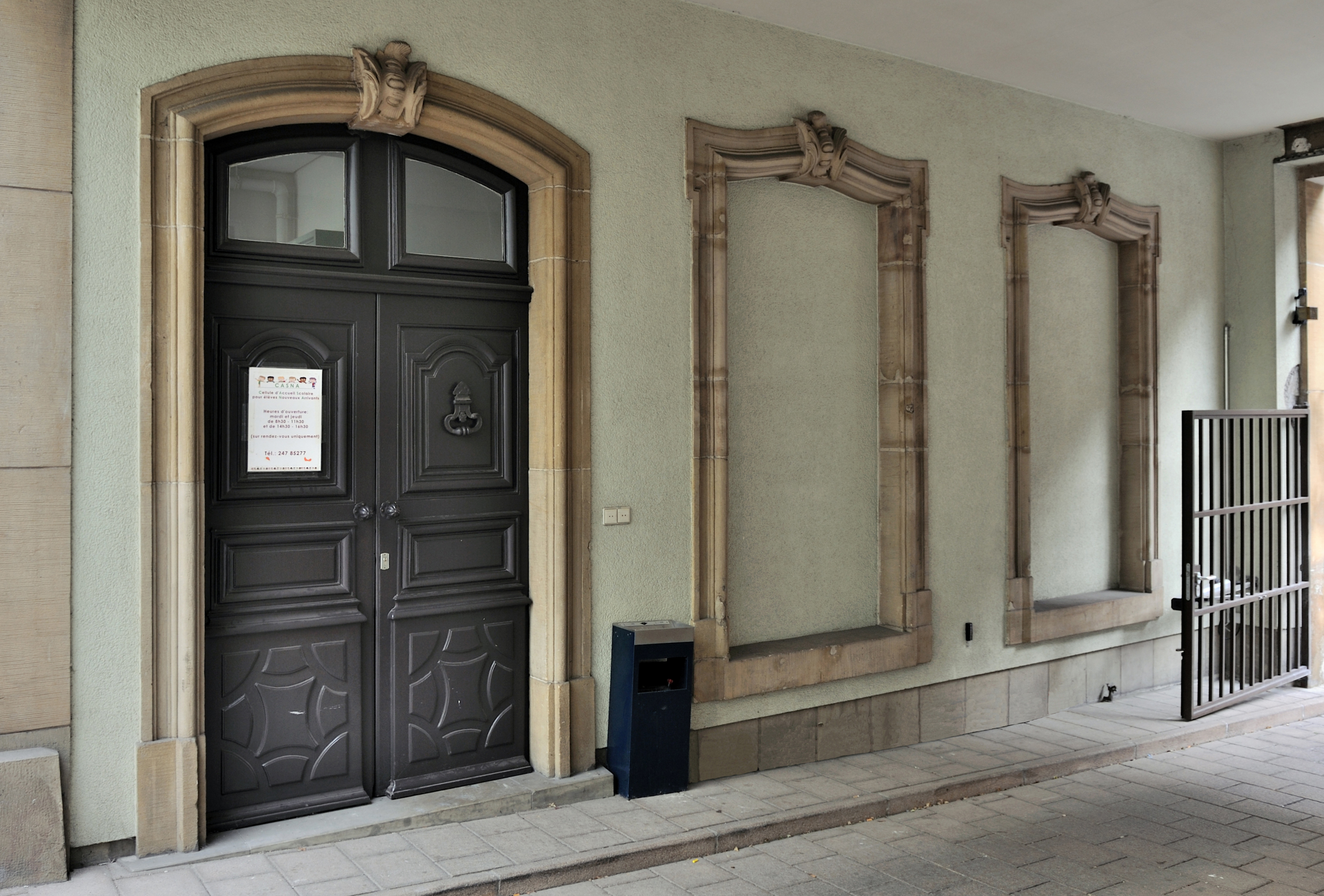 Luxembourg City:preserved window frames and portal of Mayer-Ensch house, demolished in 1952.